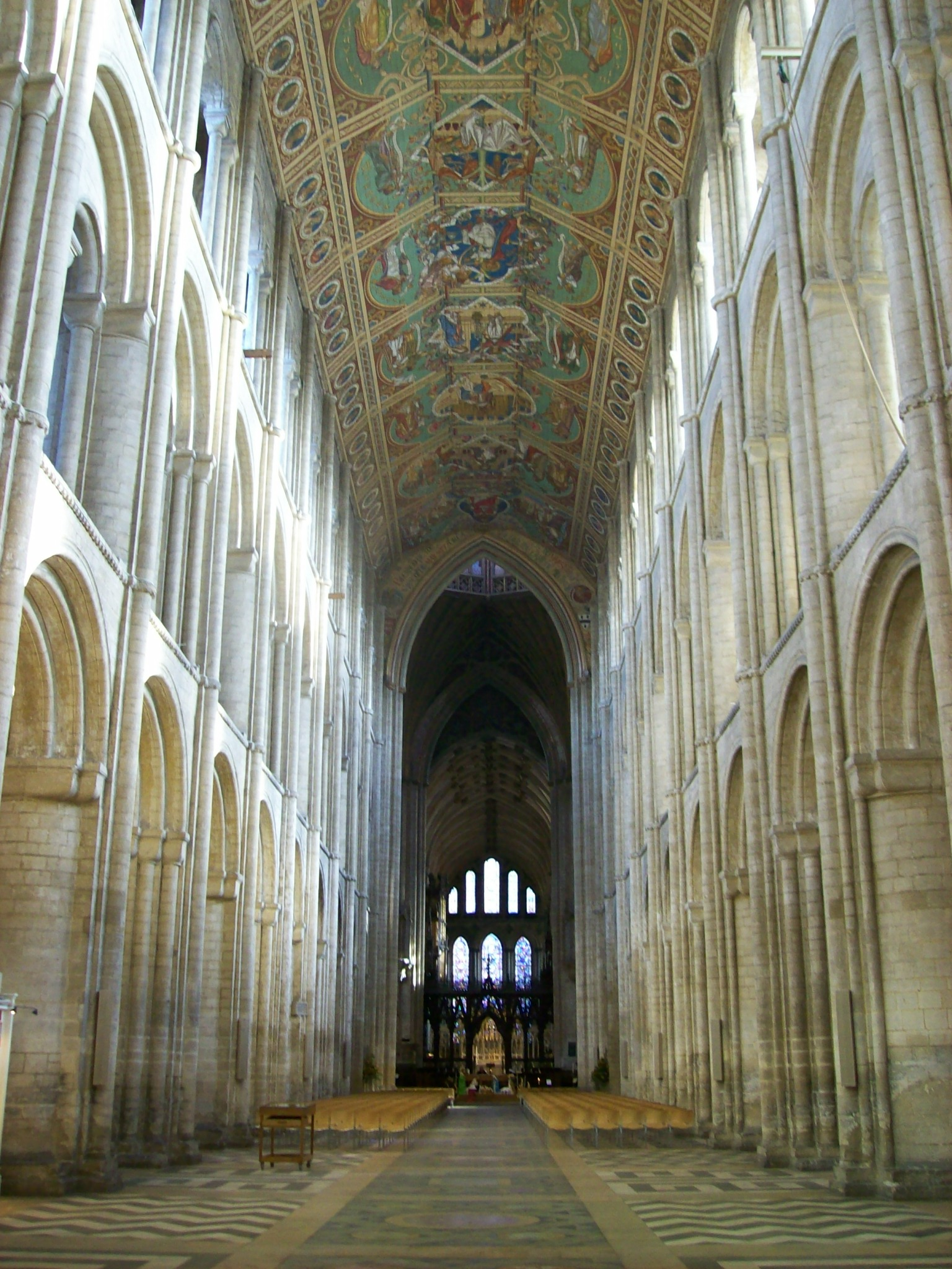 Nave, looking East, Ely Cathedral